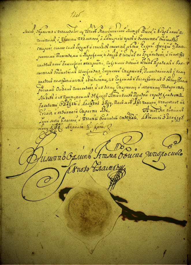 The last page of the original version of the Philipp Orlik's Constitution written in Old Ruthenian language in Bendery in April 1710, with the own signature of its author. Russian State Archive of Ancient Acts (RGADA), f. 124, op. 2, d. 12, l. 12 (back side).